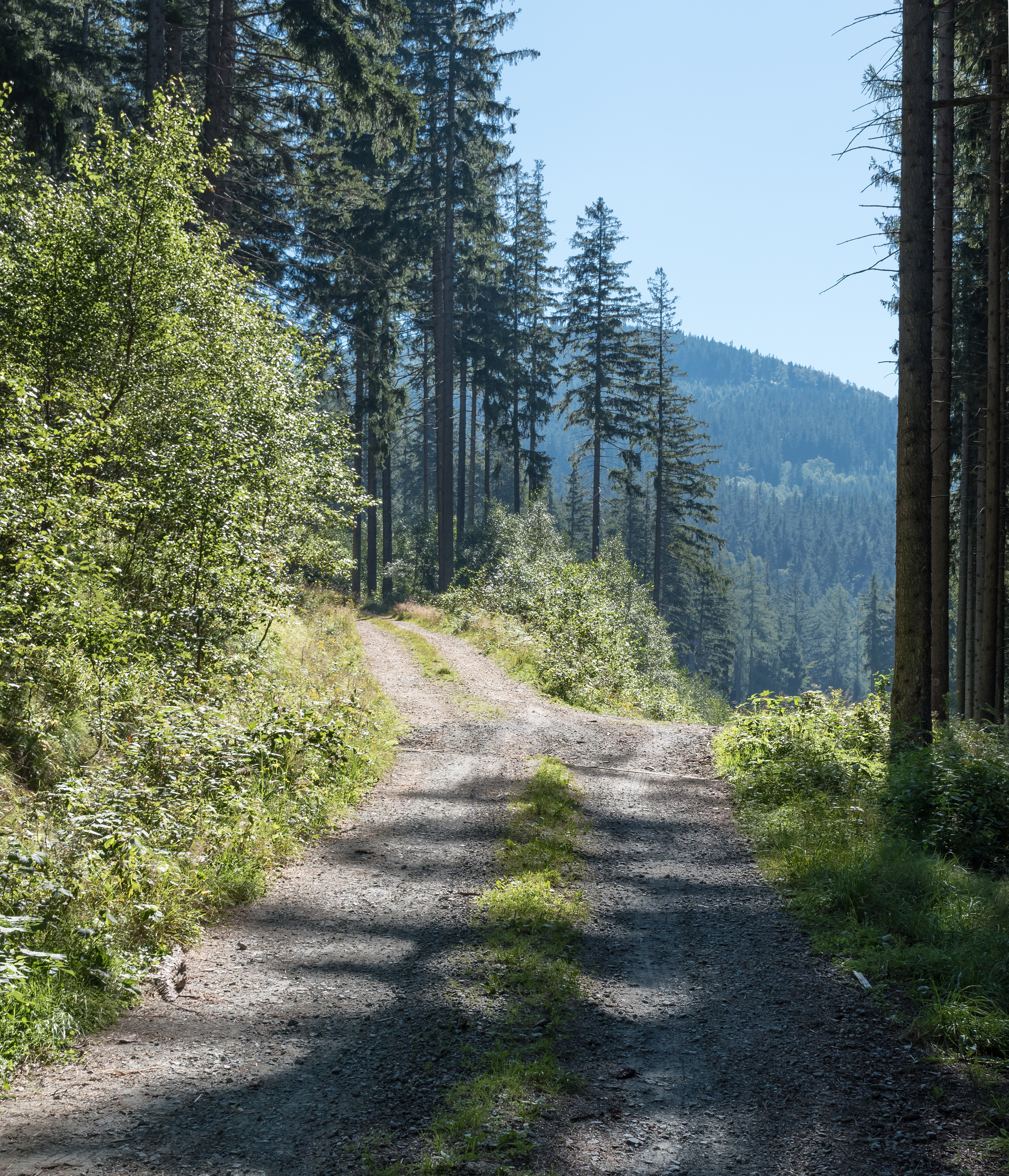 Sucha Road, Bialskie Mountains, Sudetes